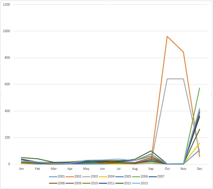 Number of Scrub typhus cases by month in South Korea during 2001-2013, showing its seasonal behavior. The majority of cases occurred in October and November.[1]